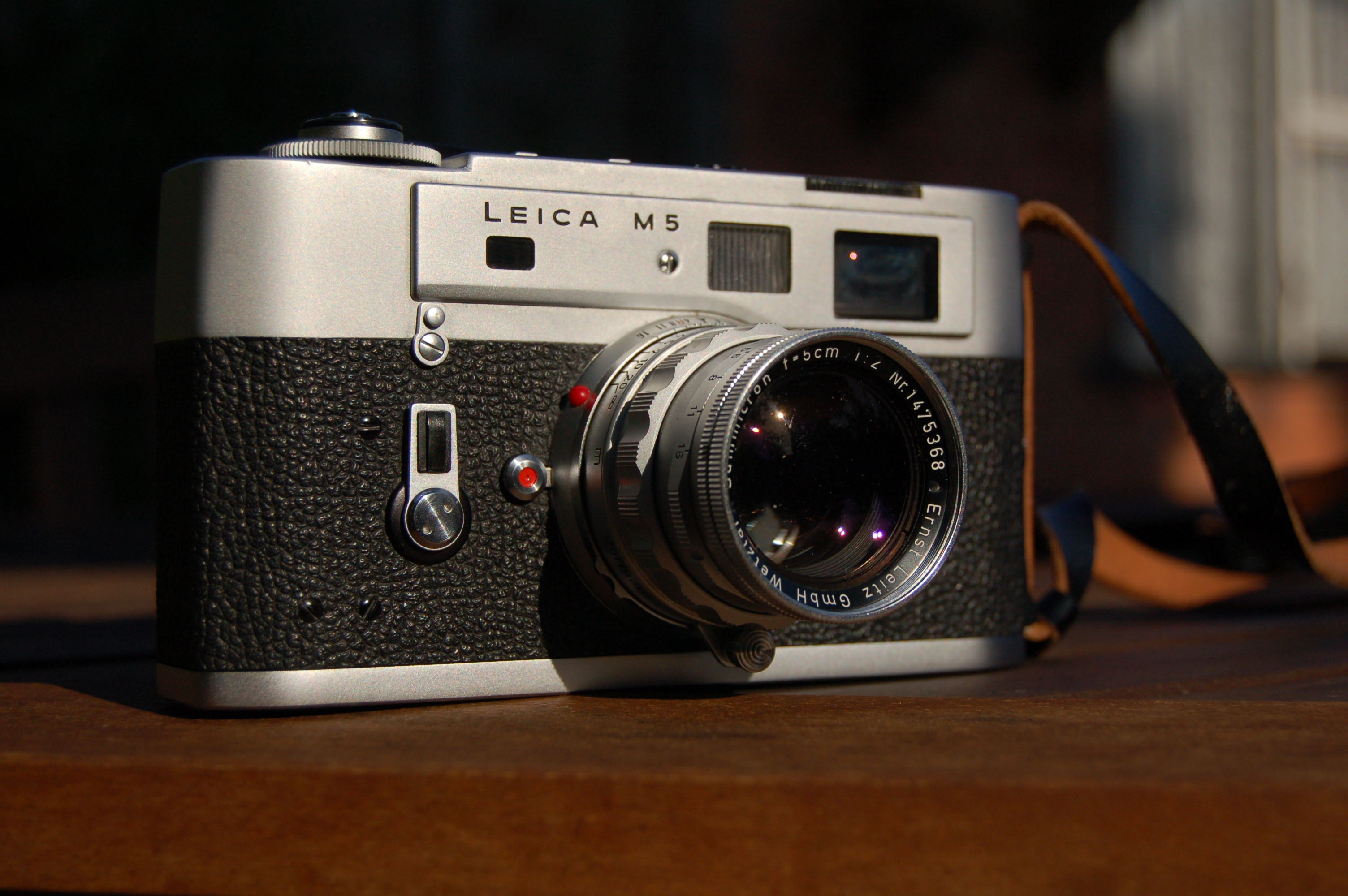 1971 vintage, with the 50mm f2 Summicron and 2 lugs on the end for the strap.